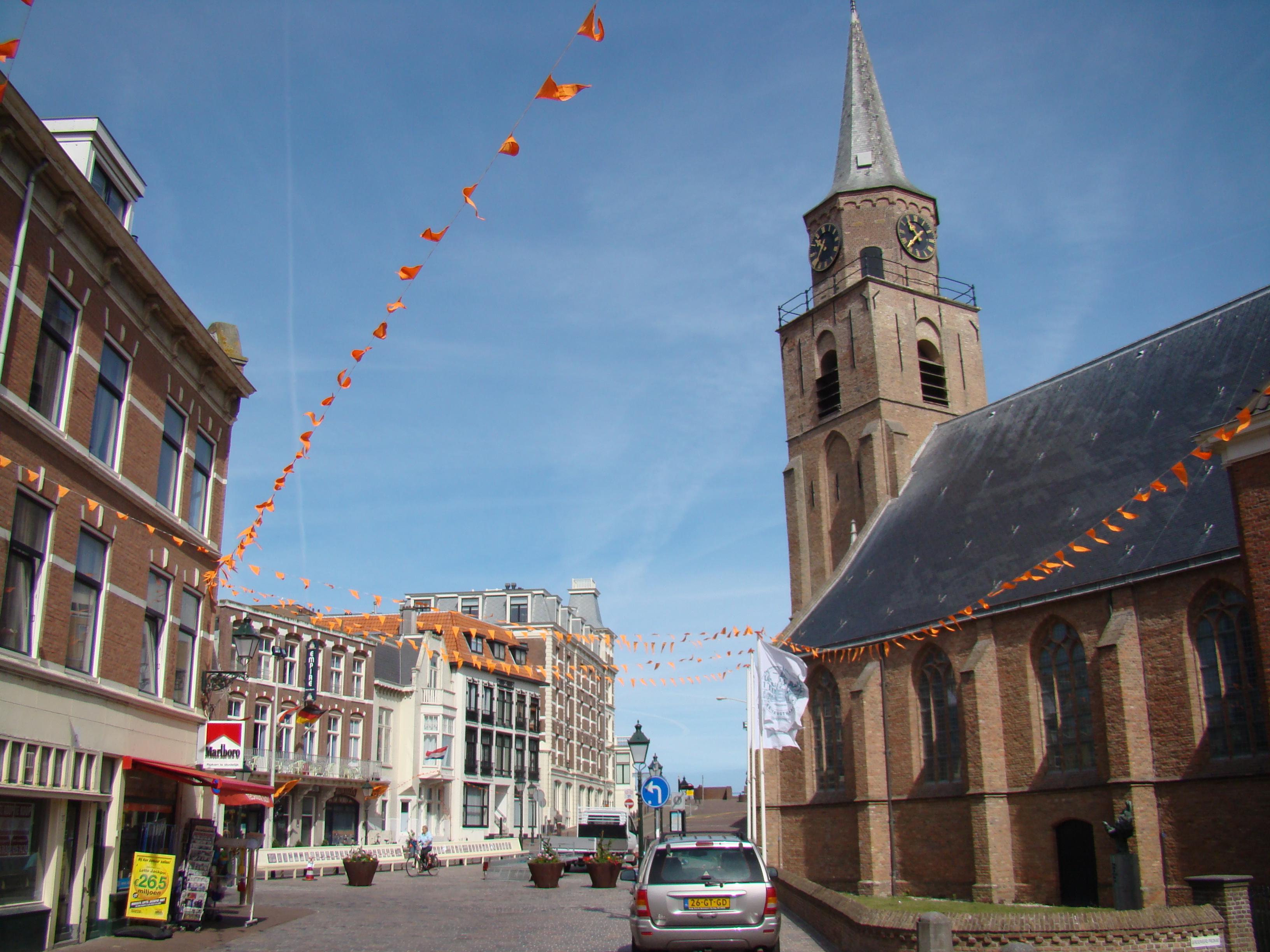 Scheveningen, Netherlands